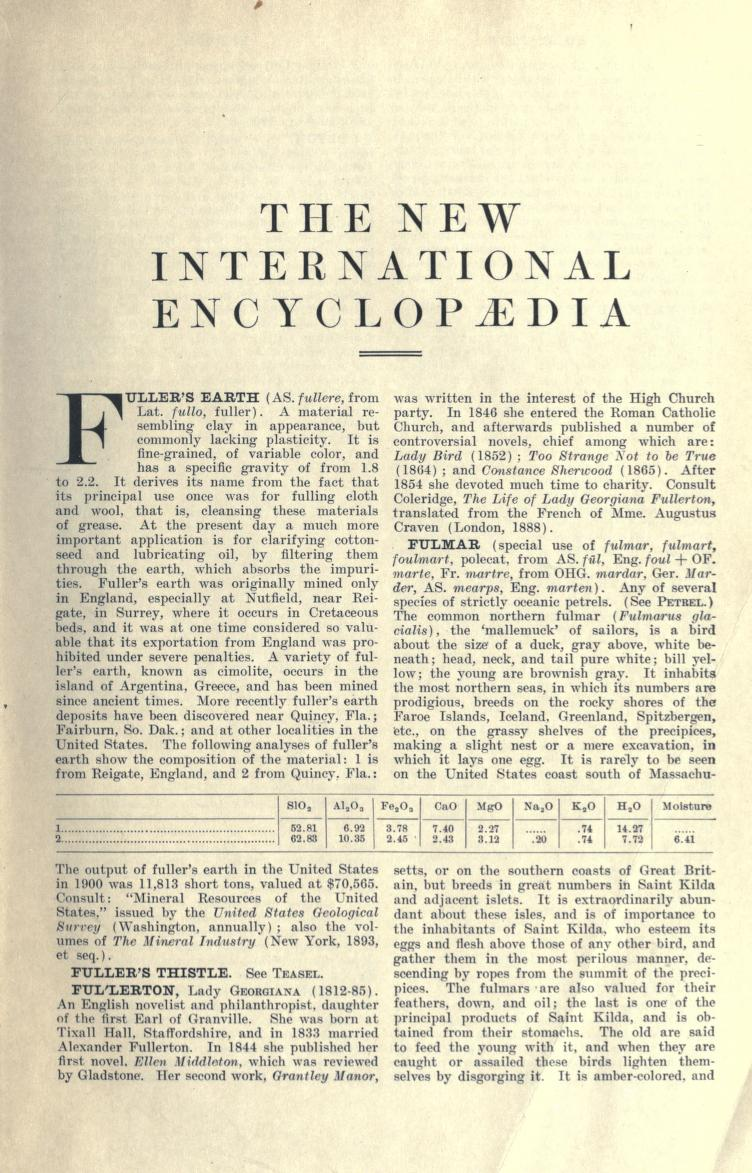 Page image for p. 1 of v. 8 of the 1903 edition which corresponds roughly to an end portion of p. 329 of v. 8 of the 1905 edition.